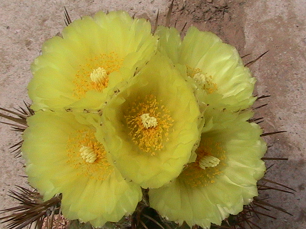 I took this photo myself. I grow this Astrophytum ornatum in my nursery.